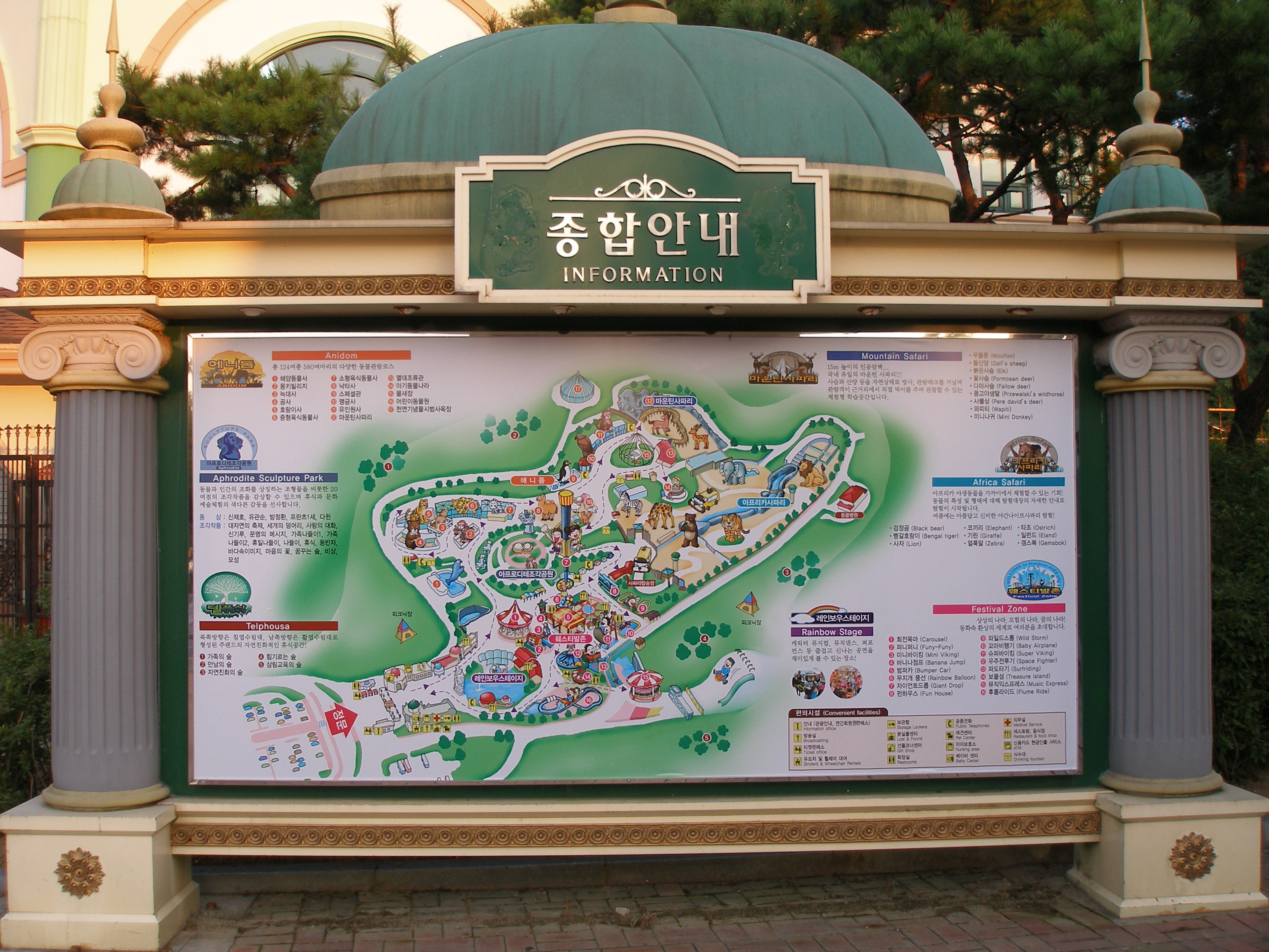 Map of Daejeon Zooland